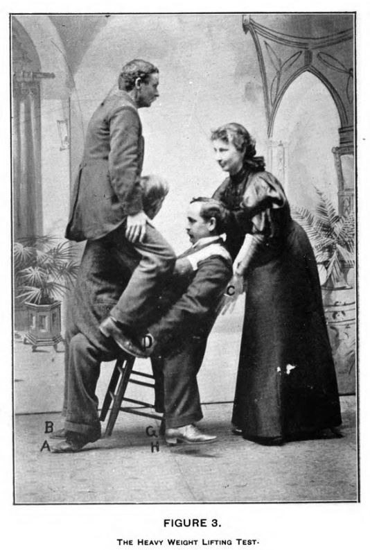 Lulu Hurst demonstrates her technique of overpowering three men on a chair.